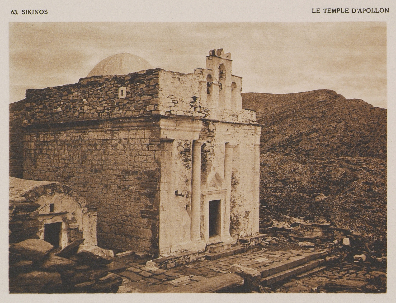 Frédéric Daniel Boissonnas Baud-Bovy. Des Cyclades en Crète au gré du vent, Geneva, Boissonnas & Co, 1919.